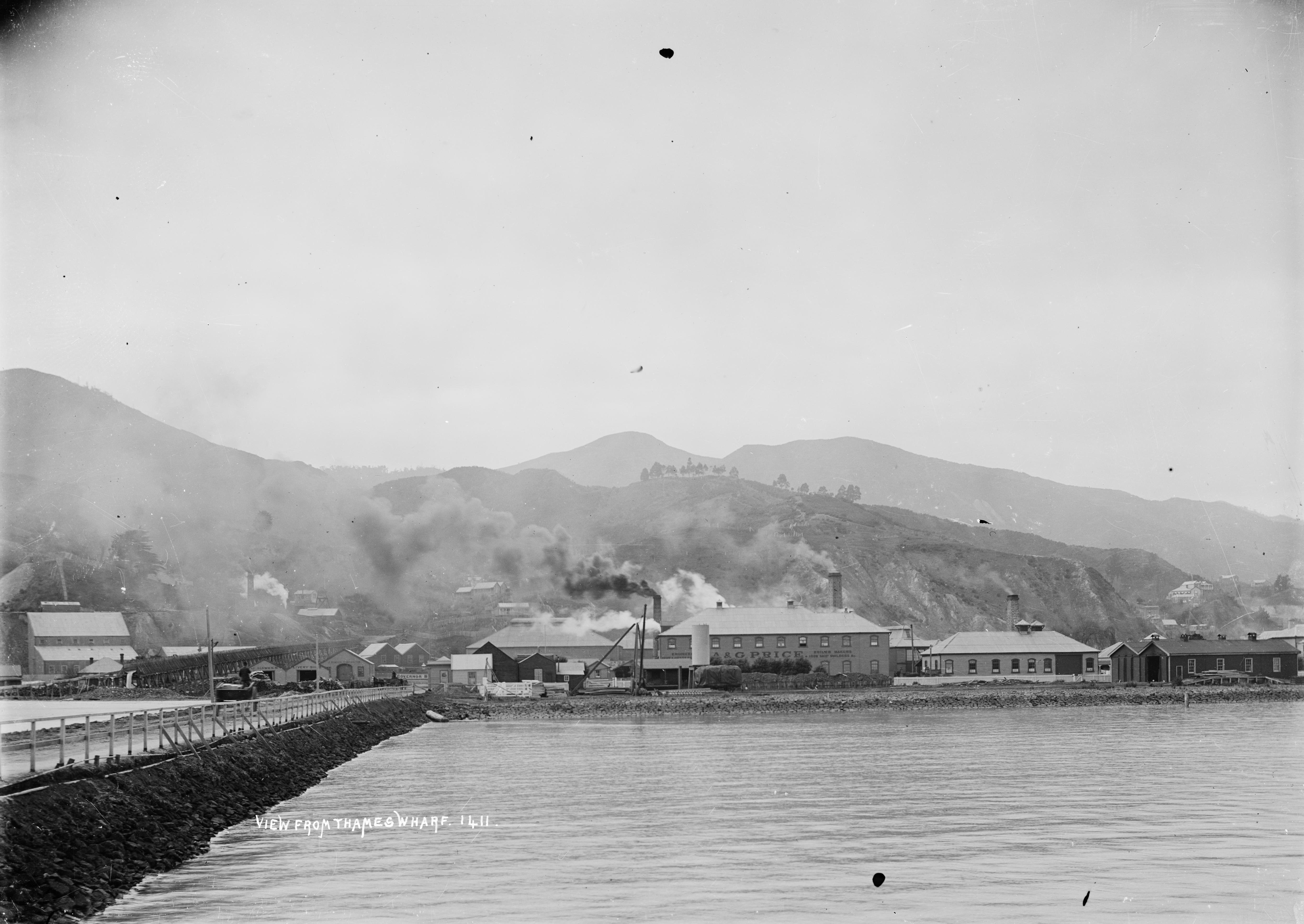 View from the Goods Wharf (Thames Wharf; Burke Street Wharf) looking towards the buildings on the waterfront and mining area at Moanataiari. A & G Price foundry can be seen in the middle distance. Photograph taken by William A Price in early 1900s. Inscriptions: Inscribed - Photographer's title on negative -bottom left: View from Thames Wharf. 1411.. Quantity: 1 b&w original negative(s). Physical Description: Dry plate glass negative 4.75 x 6.5 inches View of Moanataiari, Thames from the Goods Wharf. Price, William Archer, 1866-1948 :Collection of post card negatives. Ref: 1/2-001545-G. Alexander Turnbull Library, Wellington, New Zealand.